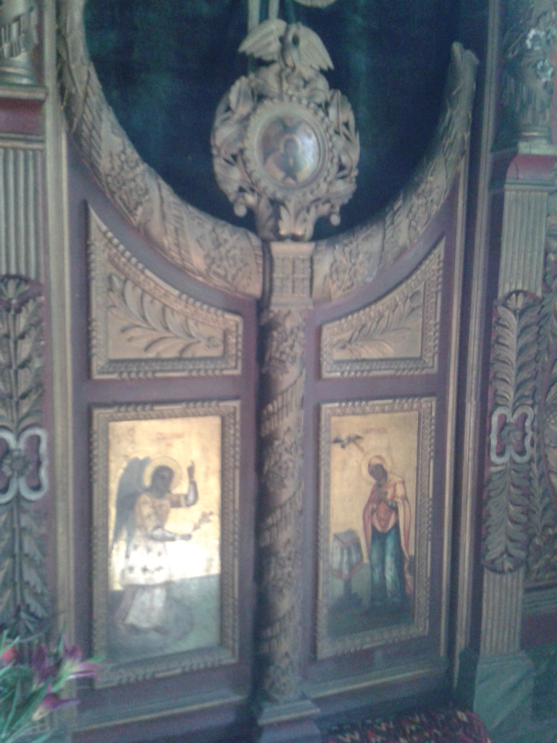 Saints Cyril and Methodius Church in Tarnovo - South Altar Door